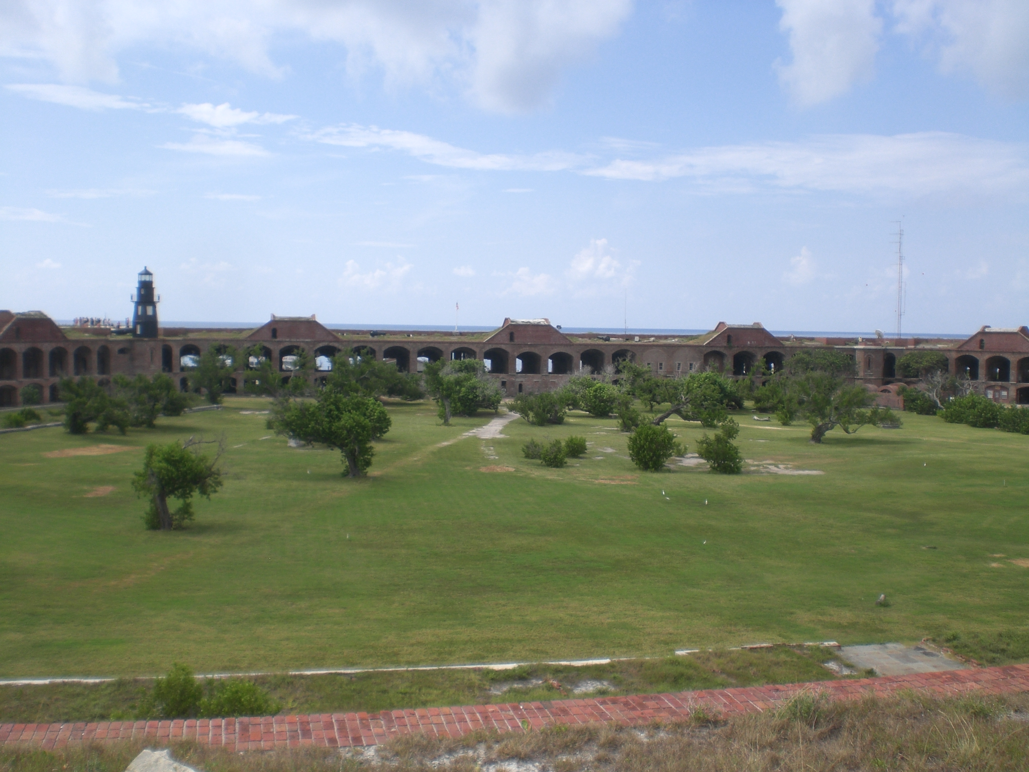 Fort Jefferson courtyard in the Dry Tortugas National park